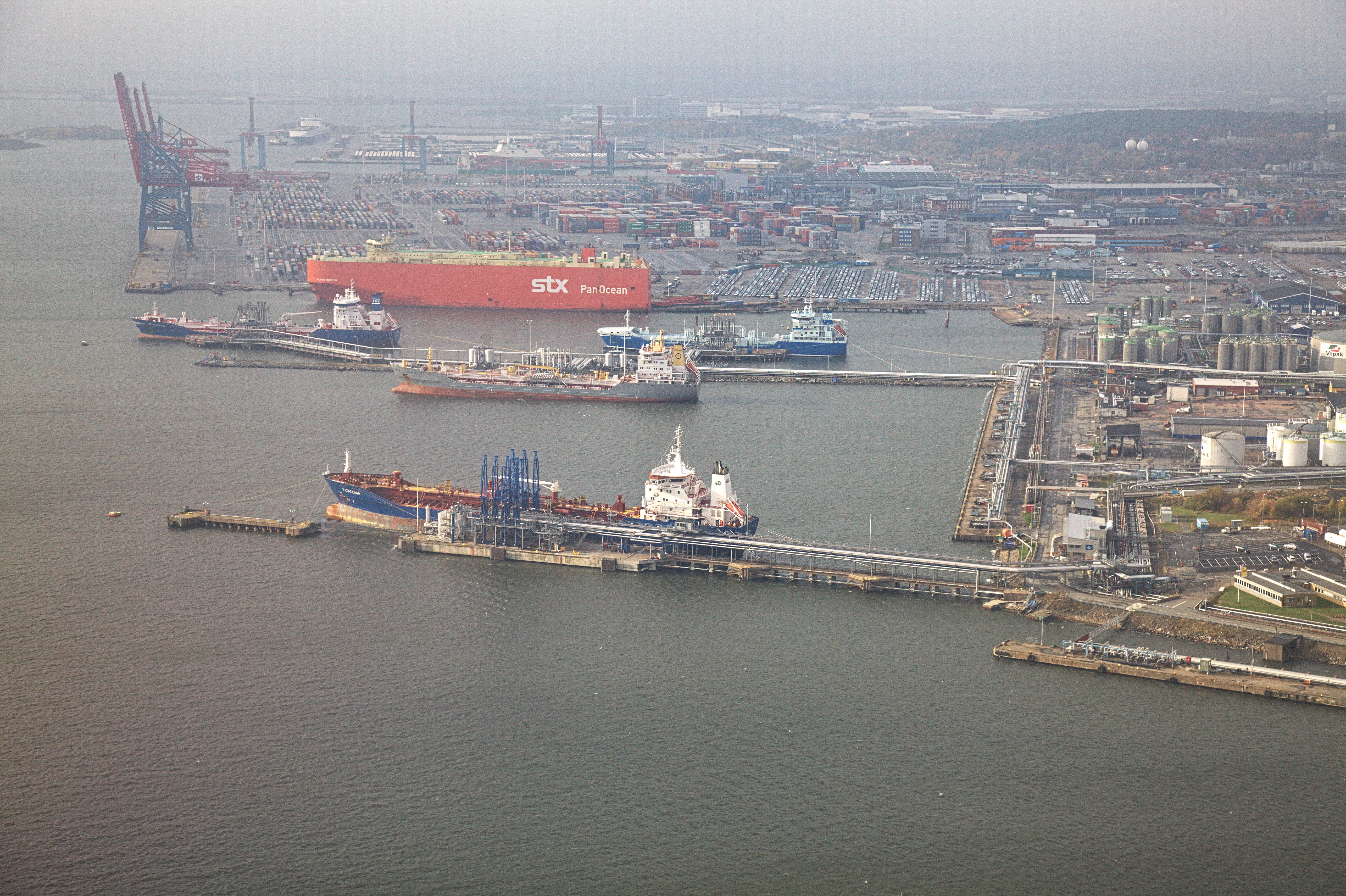 Photo taken on a helicopter over Gothenburg